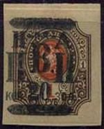 Stamp of Priamursky provisional government, 1921